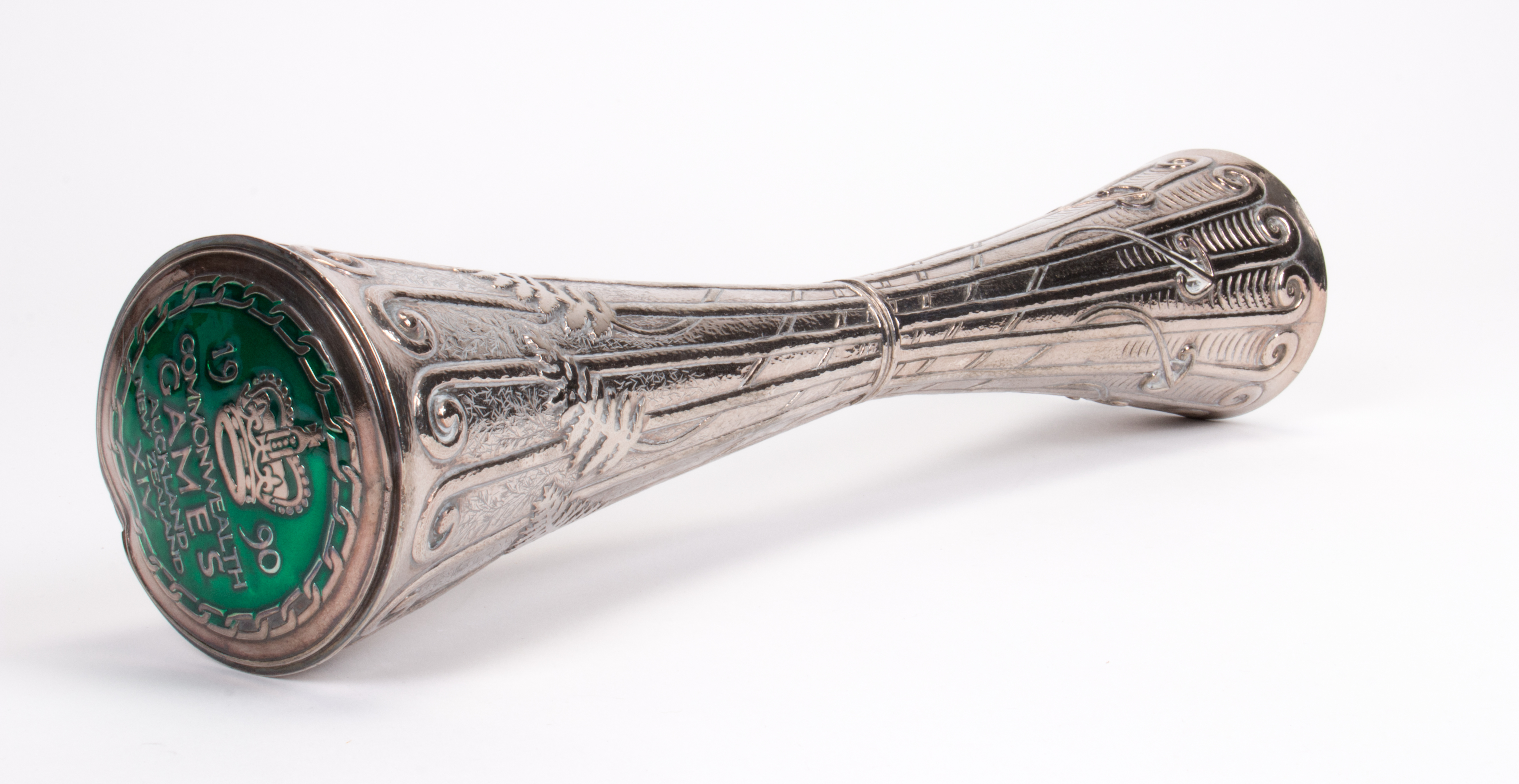 Queen's Baton's and display stand with museum label - 1990 Commonwealth Games Auckland batons- double-ended official baton consisting of a two silver, hollow cones, joined at narrowest end with screw attachment; central cavity (held- holds) Queen's message; silver cones embossed with fern and koru motif and green enamel detailing on end with text, "1990 - COMMONWEALTH - GAMES - AUCKLAND - NEW ZEALAND - XIV" alongside the Queen's crown; stand- clear (polycarbonate) display stand. Stand supports designer- (Grant Major) maker- (Peter Woods)"